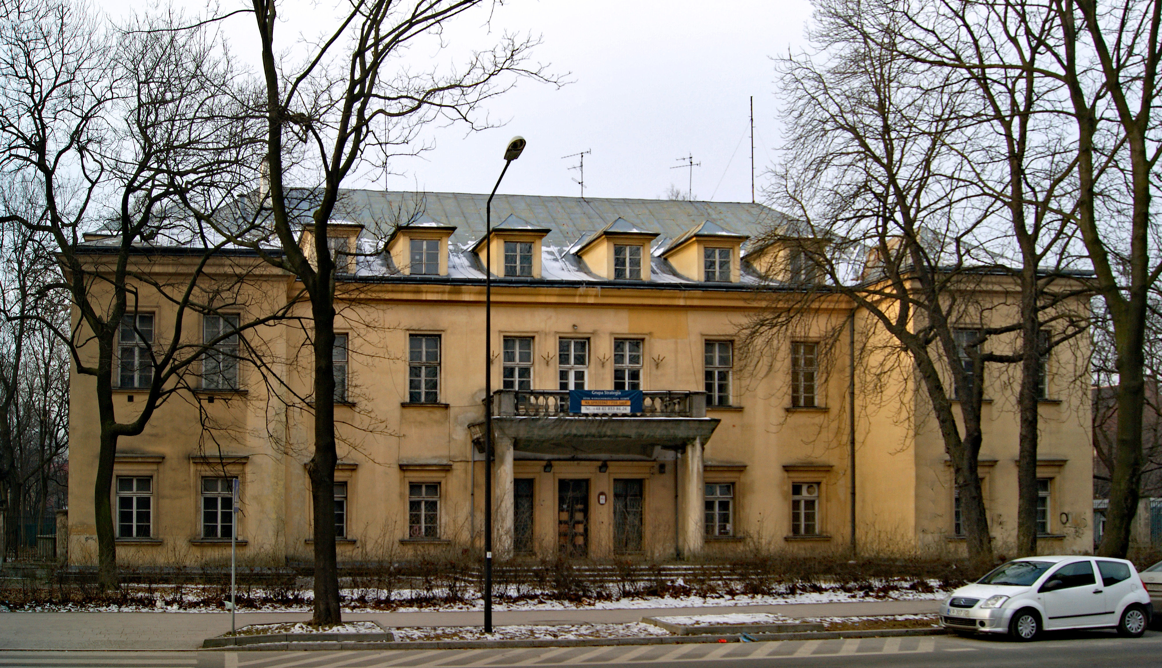 Na Szlaku Manor, Krakow, 71 Szlak street, Krakow, Poland